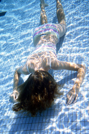 Staged by principal author of Shallow Water Blackout to illustrate typical found condition of pool drowning victim staged for that article.